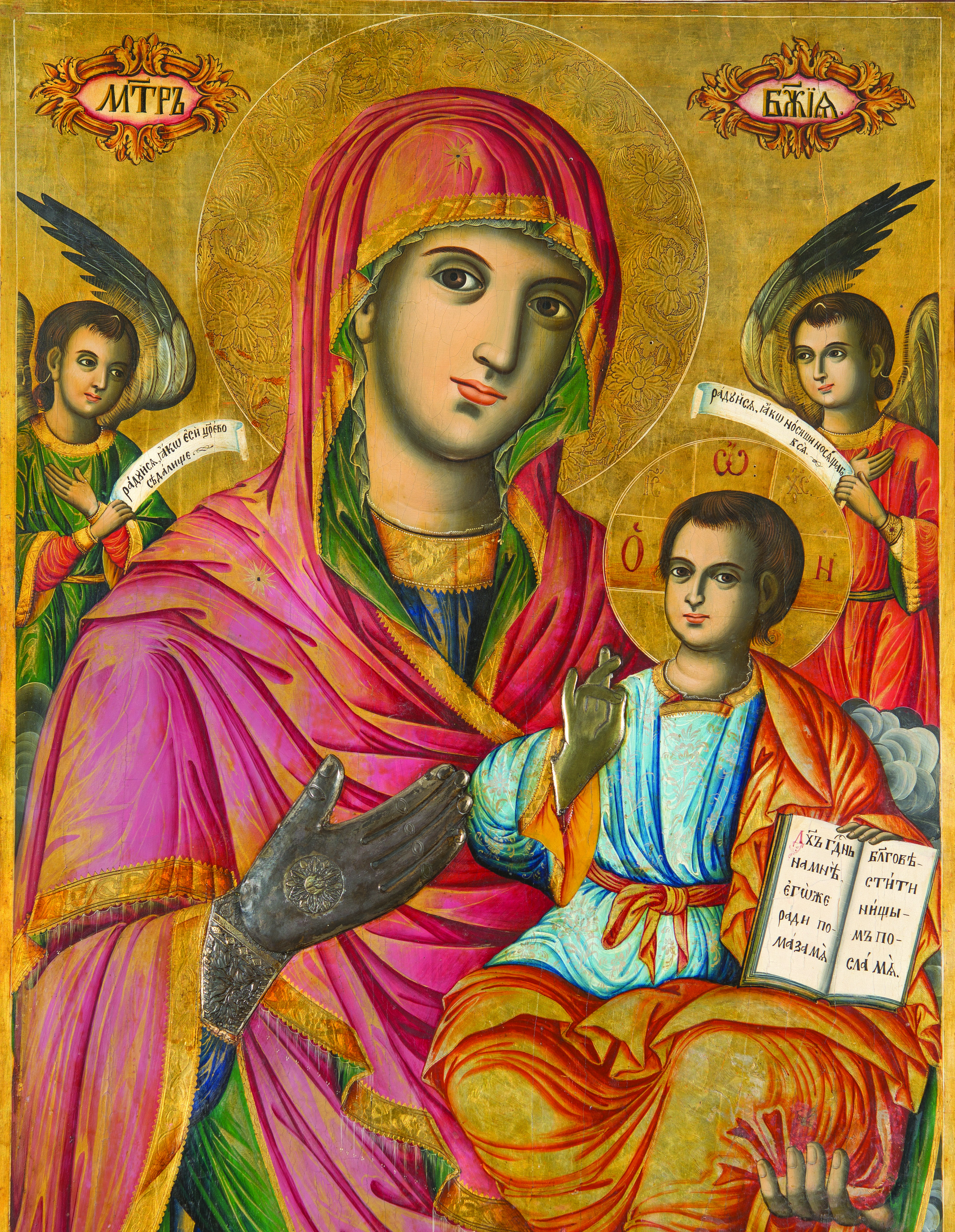 Saint Mary Icon from Sts Peter and Paul Church in Kula by Dicho Krastev, 1863